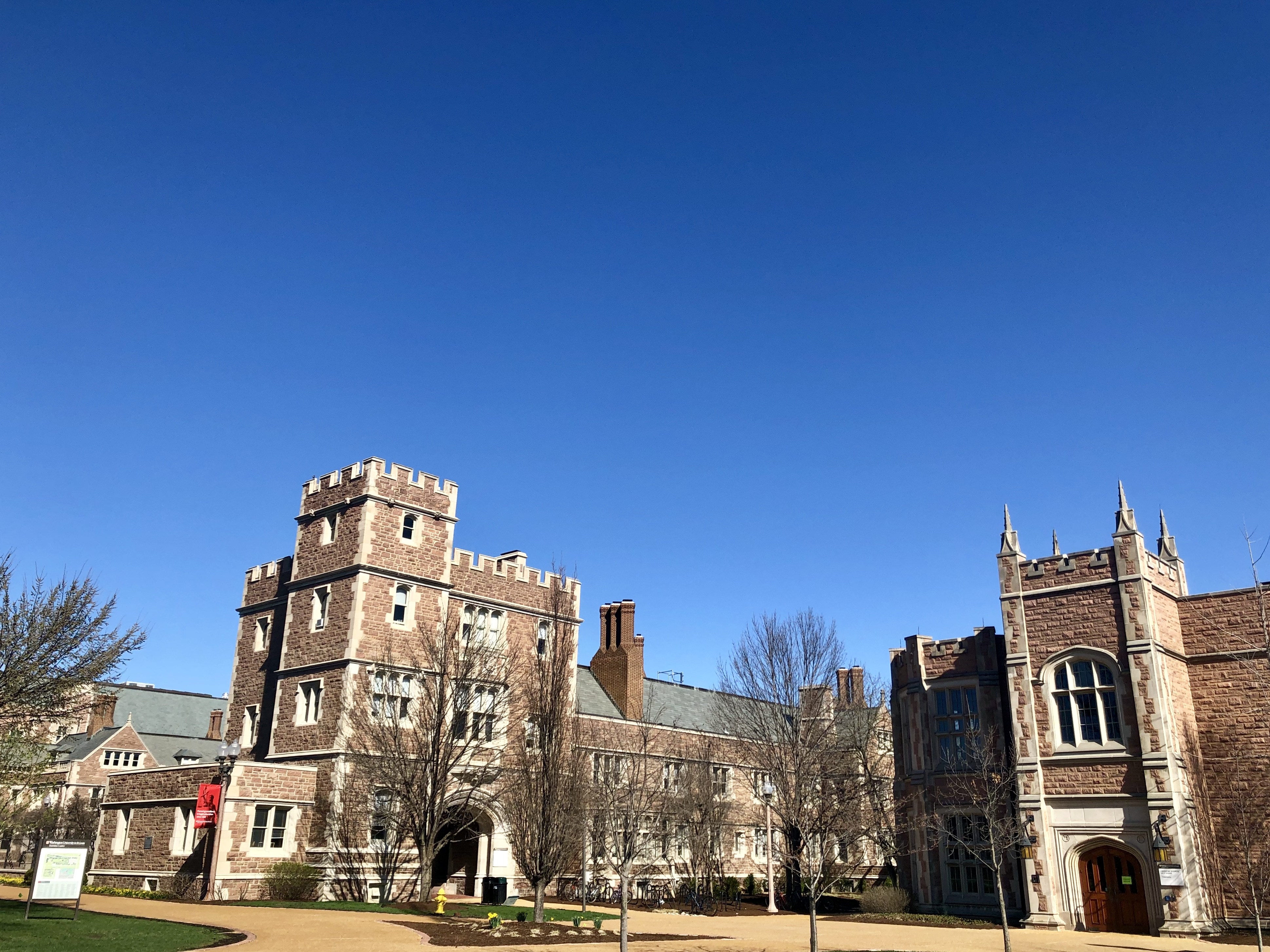 WashU McMillan Hall